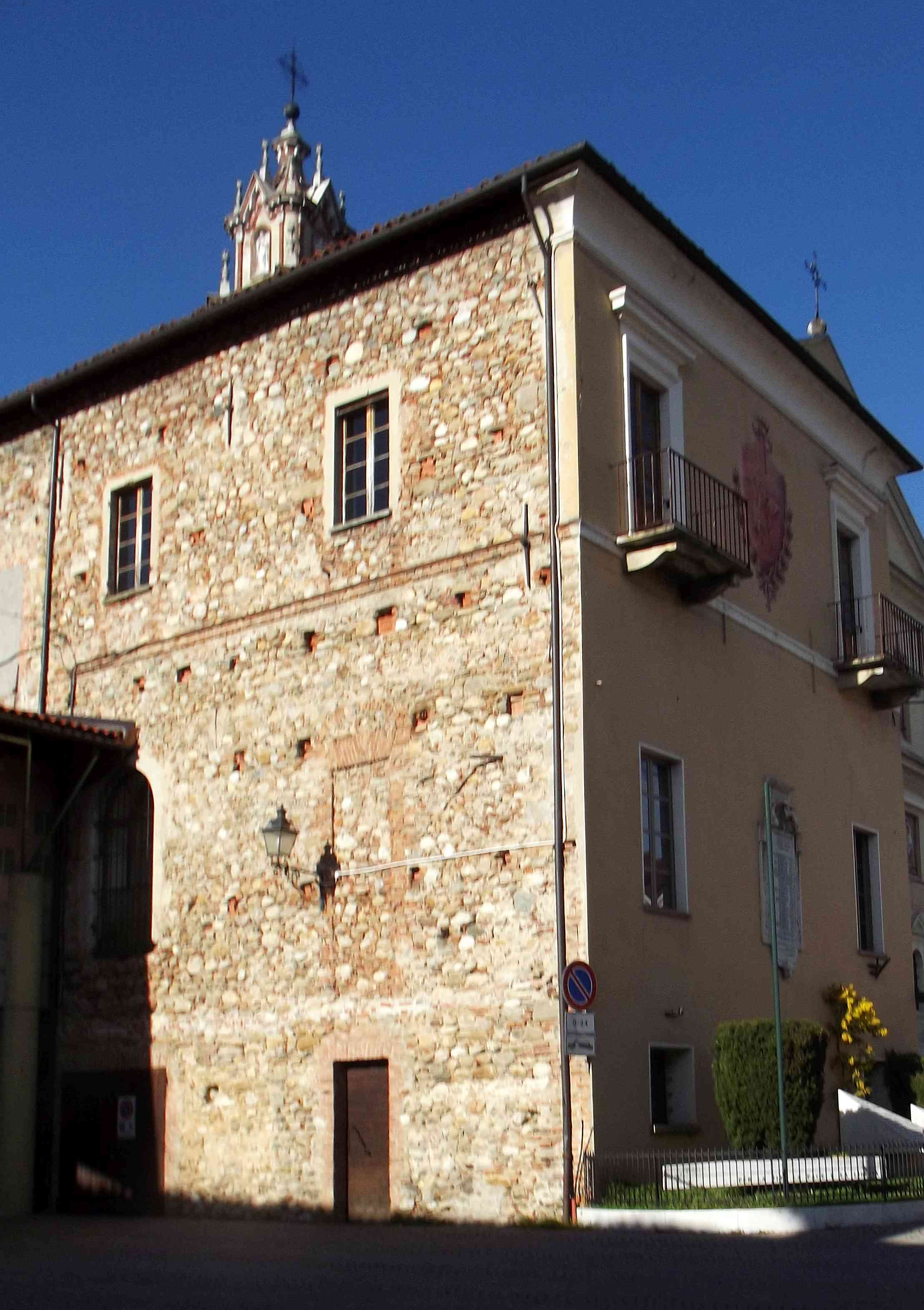 San Michele Mondovì (CN, Italy): town hall